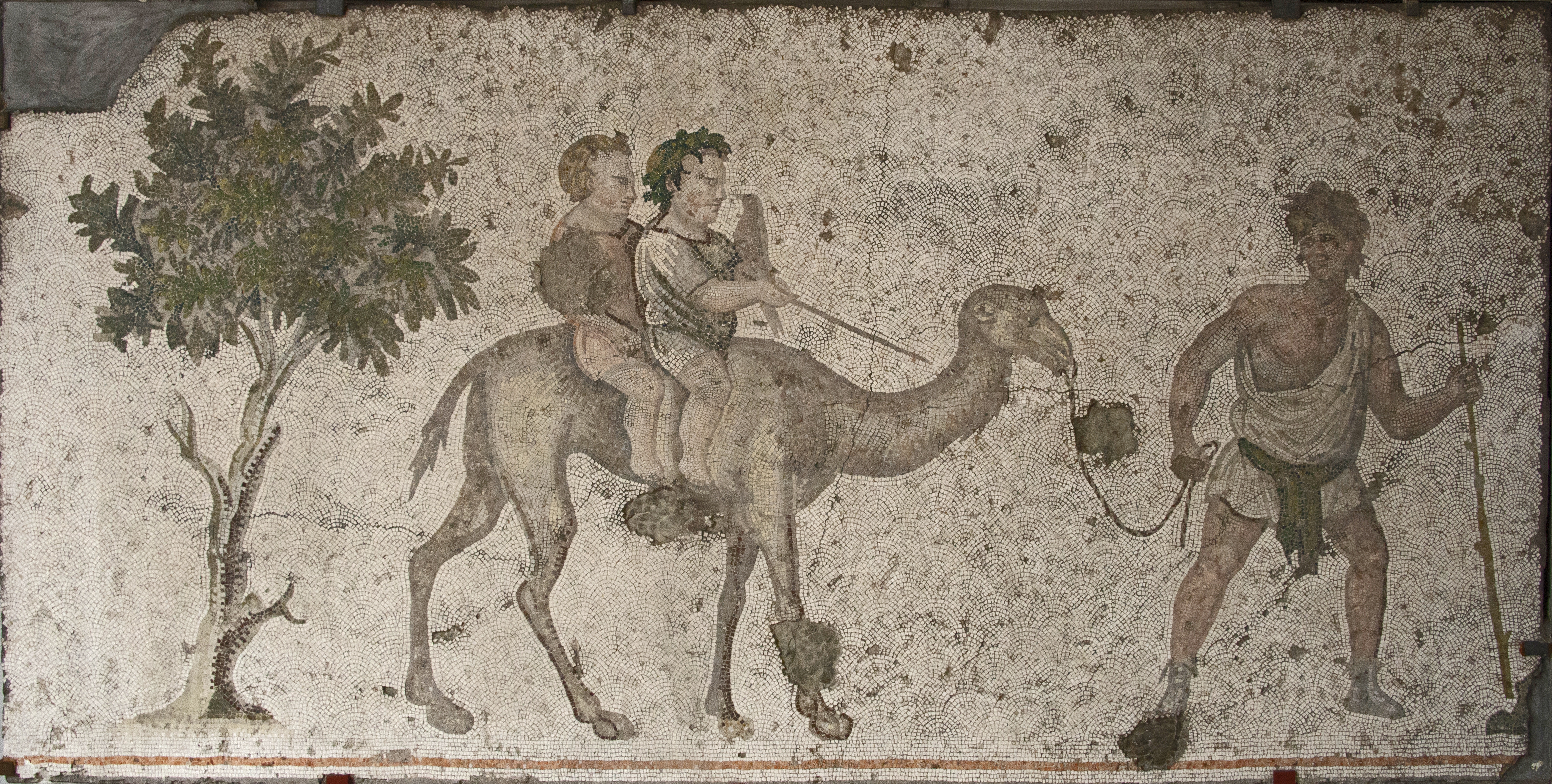 Two children are seated on a dromedary, while a groom olr stableman, dressed in a chiton, is holdings its reins. The child in front may be from noble stock as it wears a crown and holds a domestic bird.